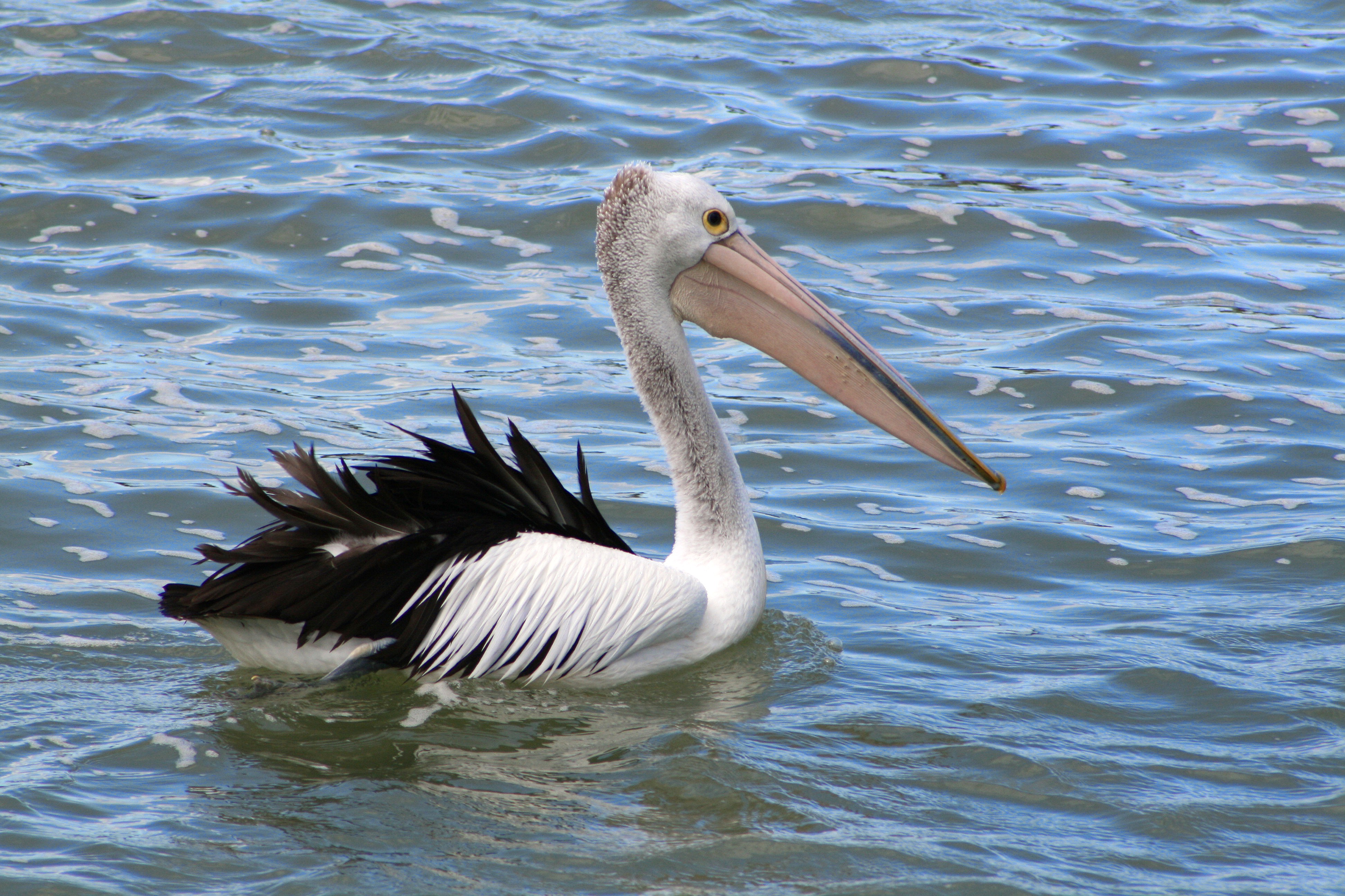 Australian pelican (Pelecanus conspicillatus), St Helens, Tasmania, Australia